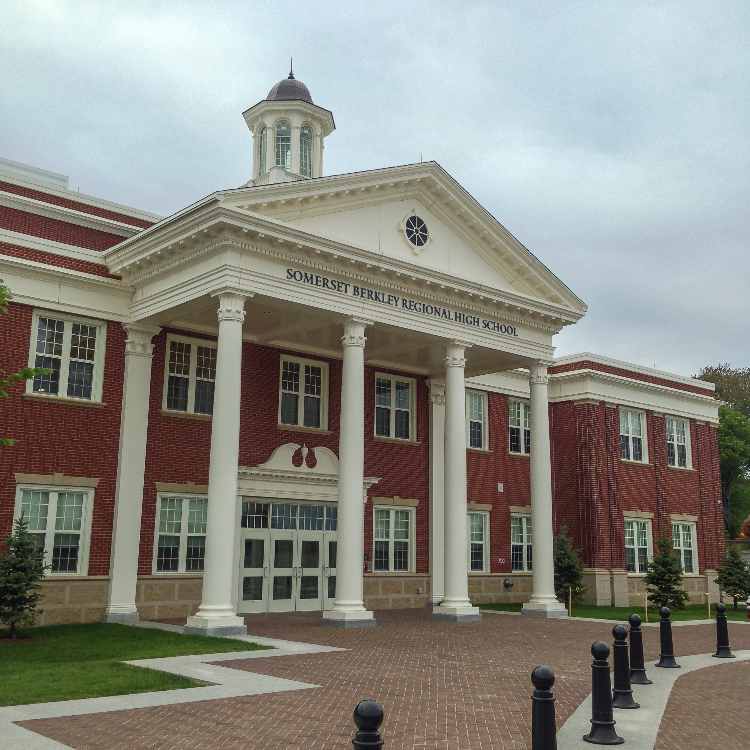 Somerset Berkley regional high school, 625 County Street, Somerset Massachusetts. This is the new building, opened September 2014.